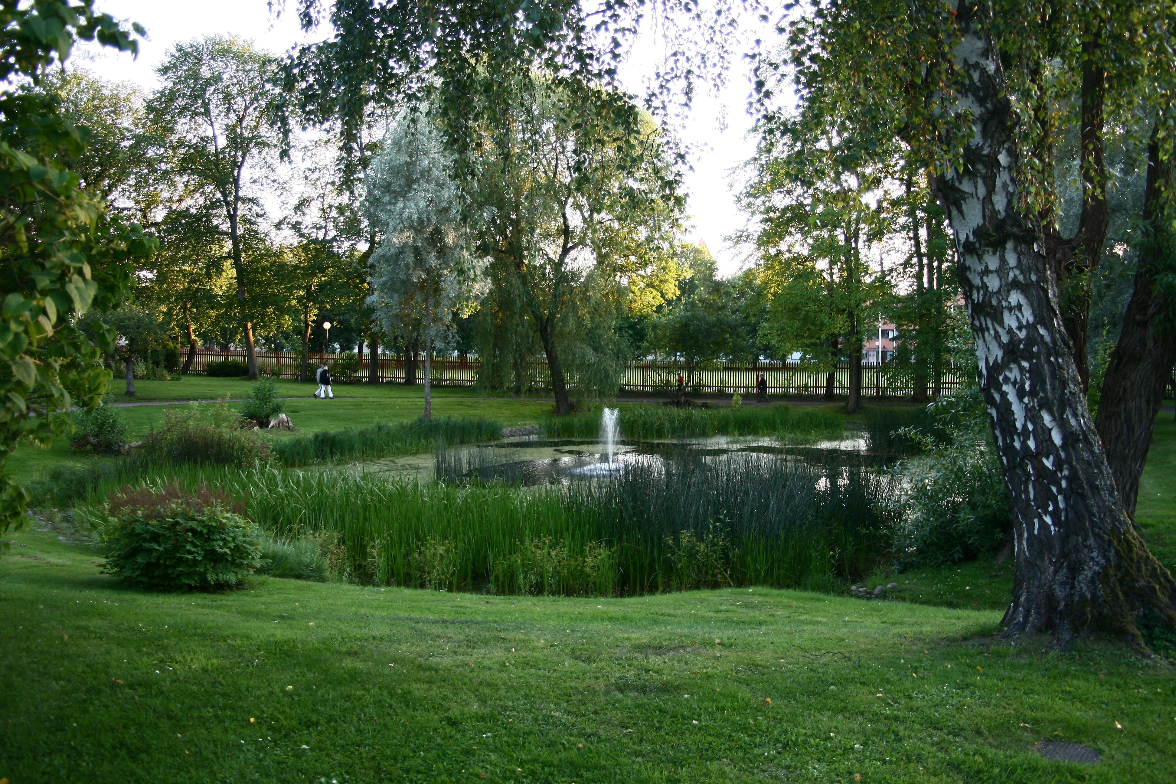 Inside the garden (normally not open to the public) of Linköping Castle, in central Linköping, Sweden. Pond, lawn, and trees.